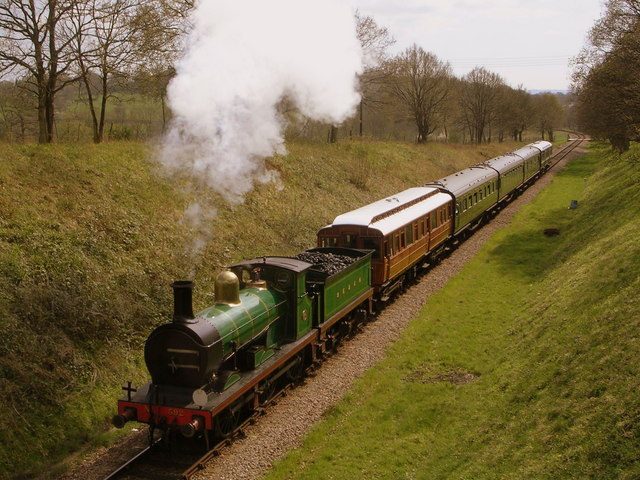 Bluebell Railway